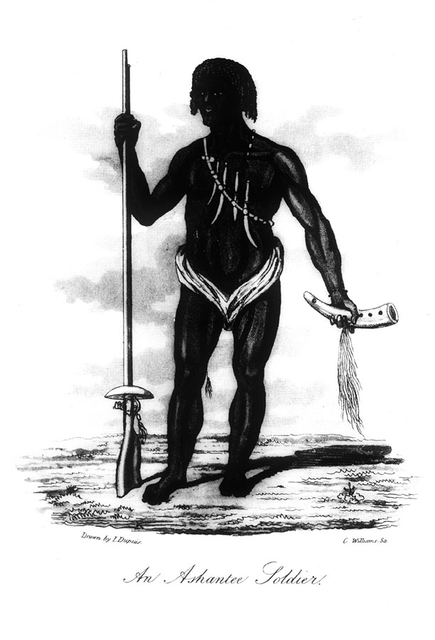 Ashanti soldier